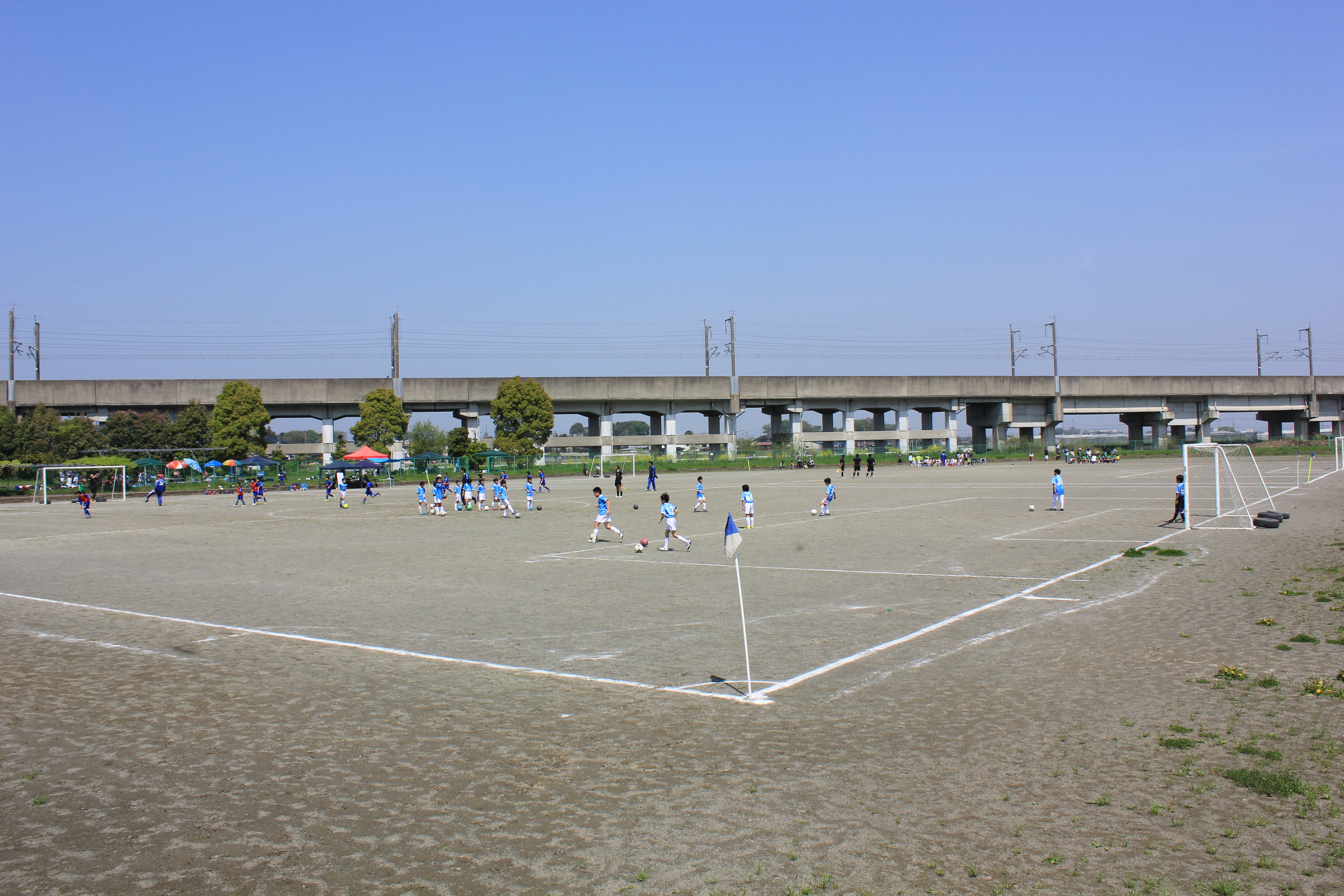 Hasuda City Sports Center Ground